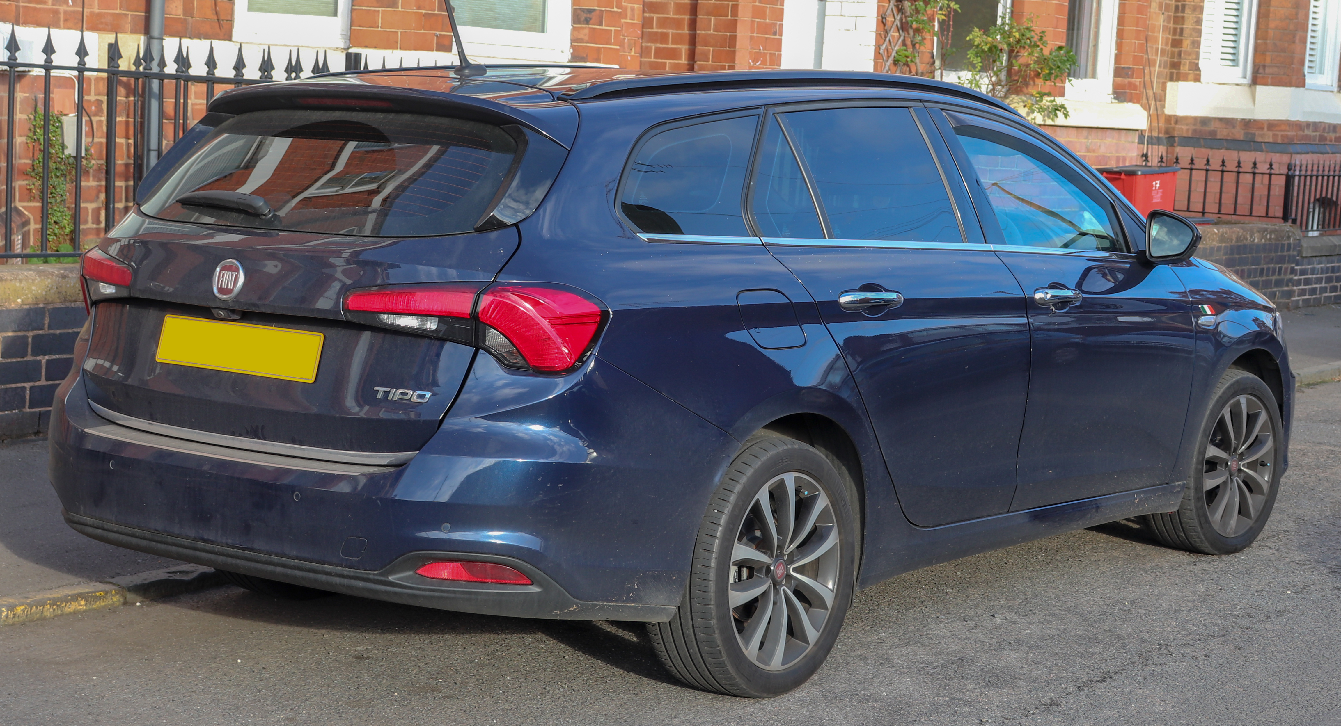 2016 Fiat Tipo Lounge T-Jet Estate 1.4 Rear Taken in Leamington Spa